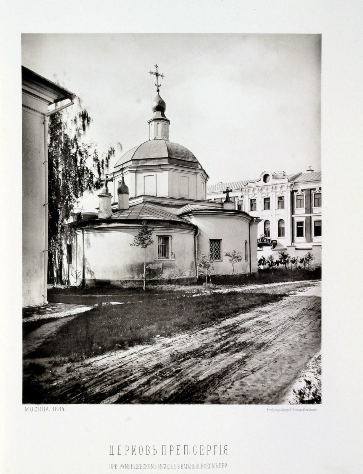 Plate 53: Church of St. Sergius at Rumyantsev museum (see category:Pashkov house).